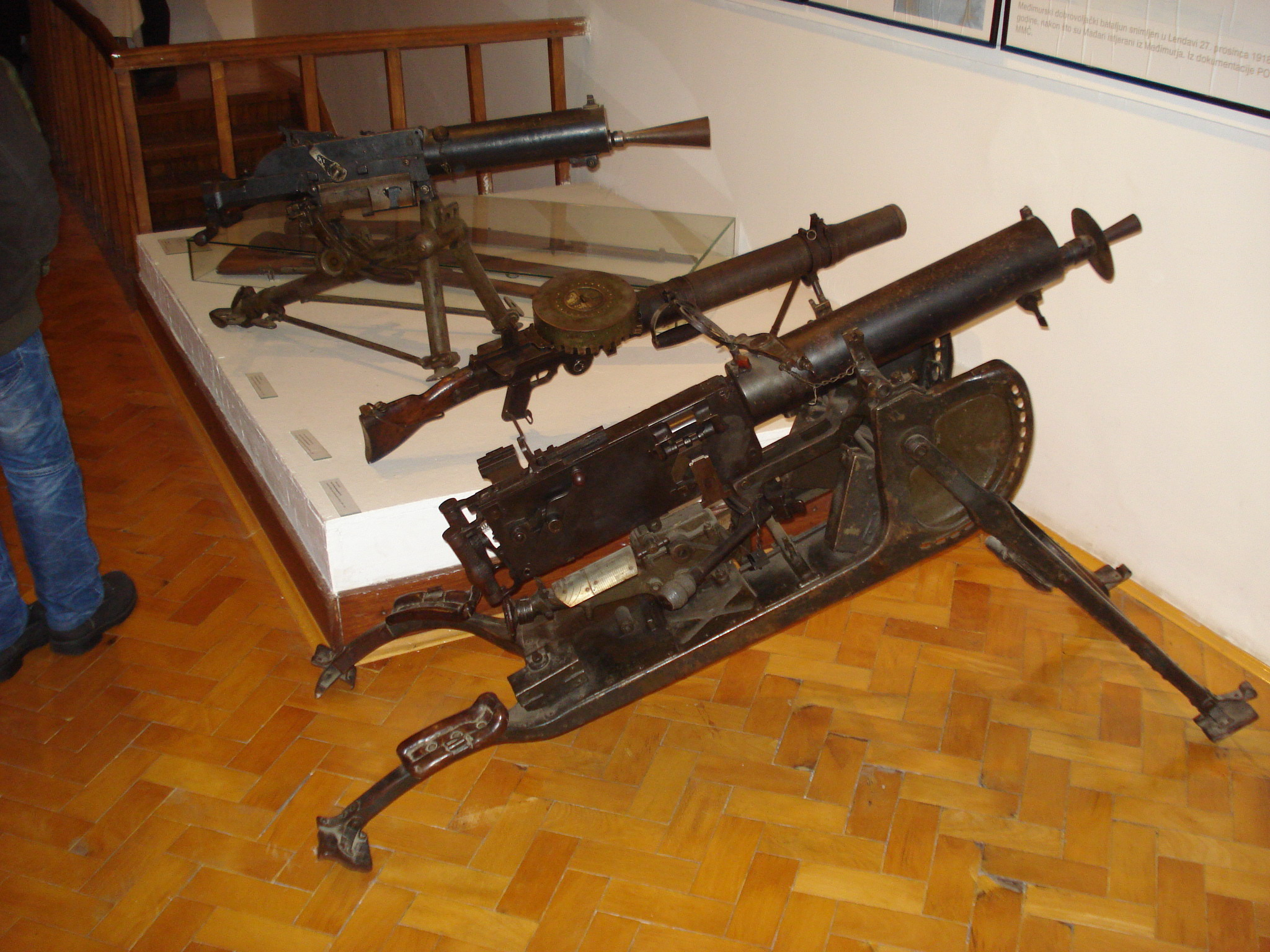 Medjimurje County Museum in Čakovec (Croatia) during the Night of museums 2014.- collection of old machine guns